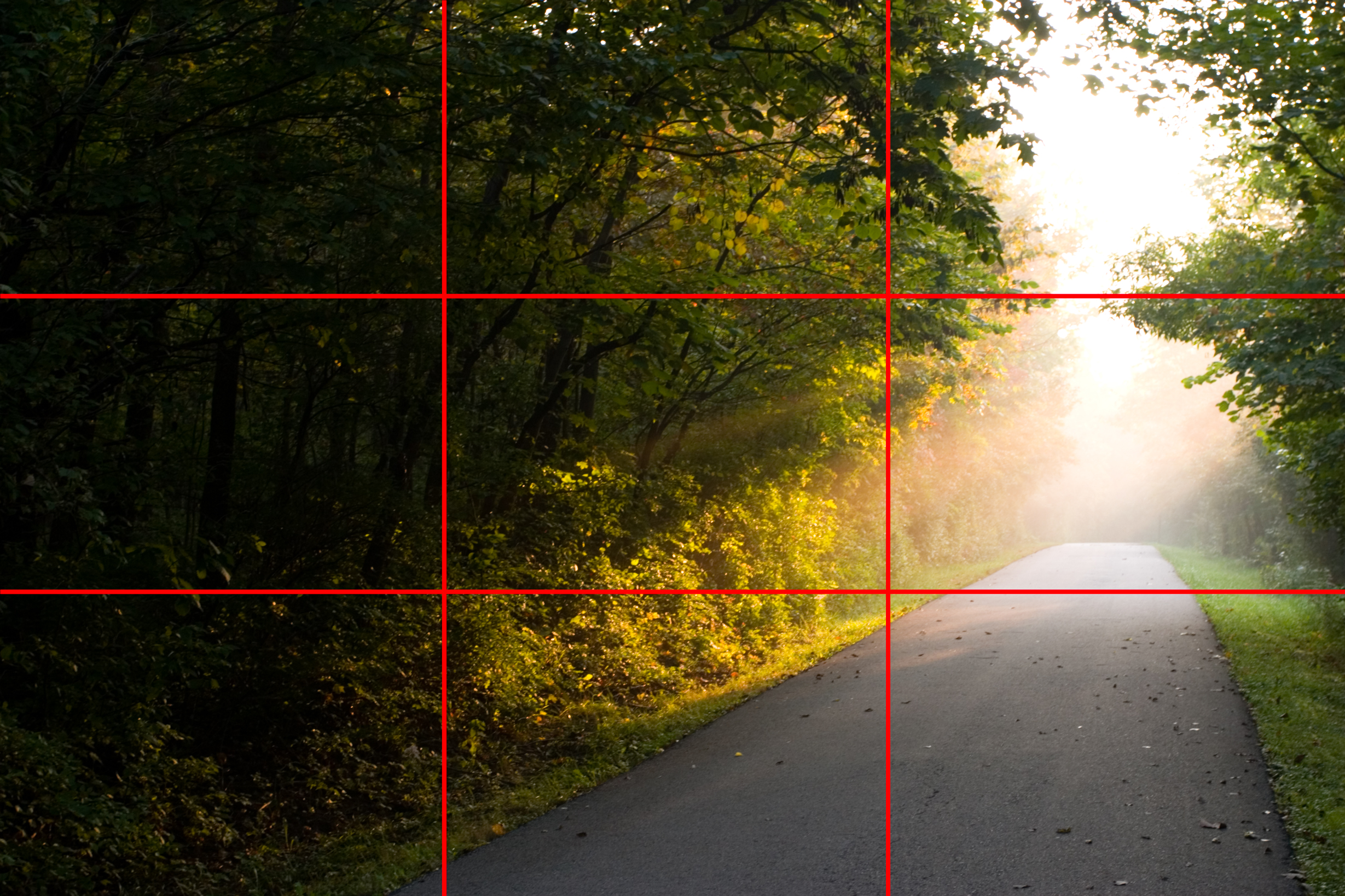 Image of a small road leading out of a forest into the light, modified to include a rule of thirds grid for demonstration purposes.